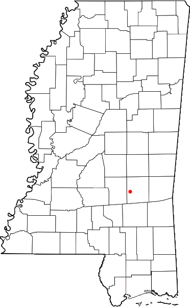 Bay Springs, Mississippi location map; created with the GIMP. Made by User:Acntx. Adapted from Wikipedia's Mississippi County Maps.